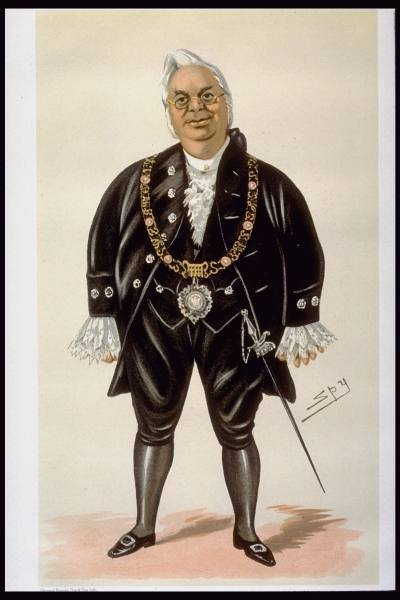 Caricature of Lord Mayor of London William McArthur.